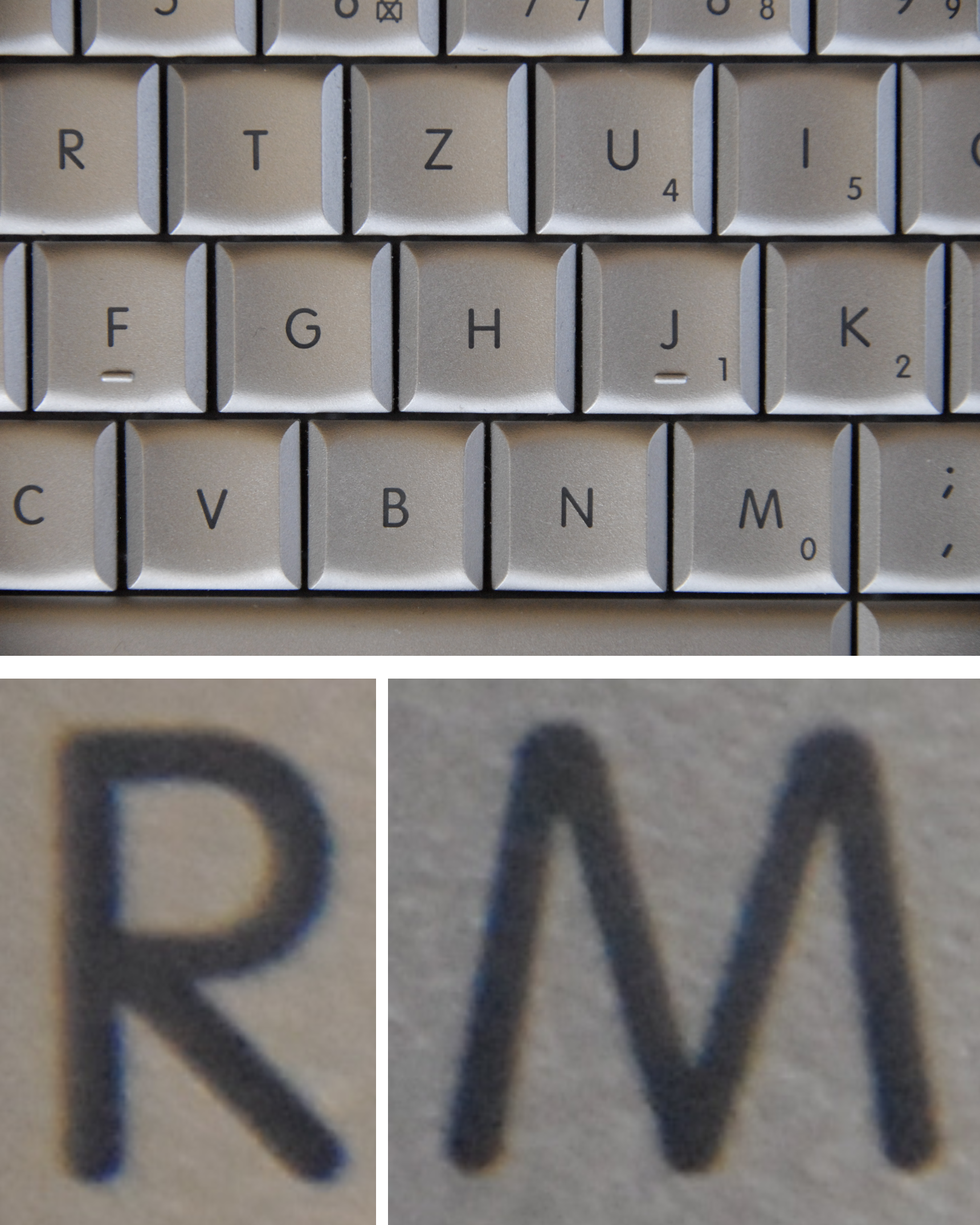 Chromatic Abberations, zoomed parts of the image MBP_keyboard_closeup.JPG, 500% upsampled, bicubic interpolation